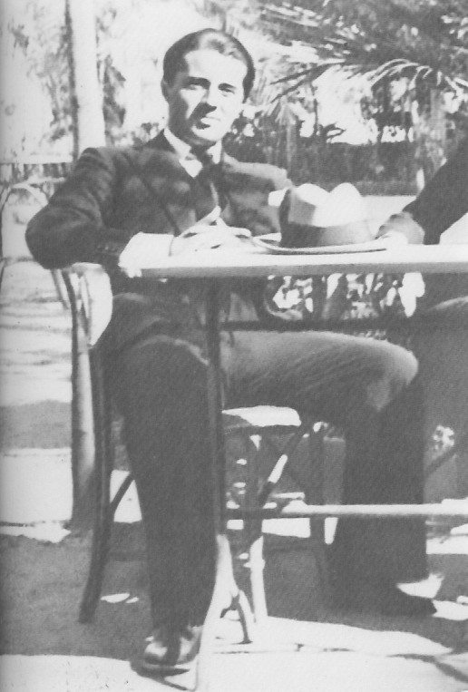 Hoxha student